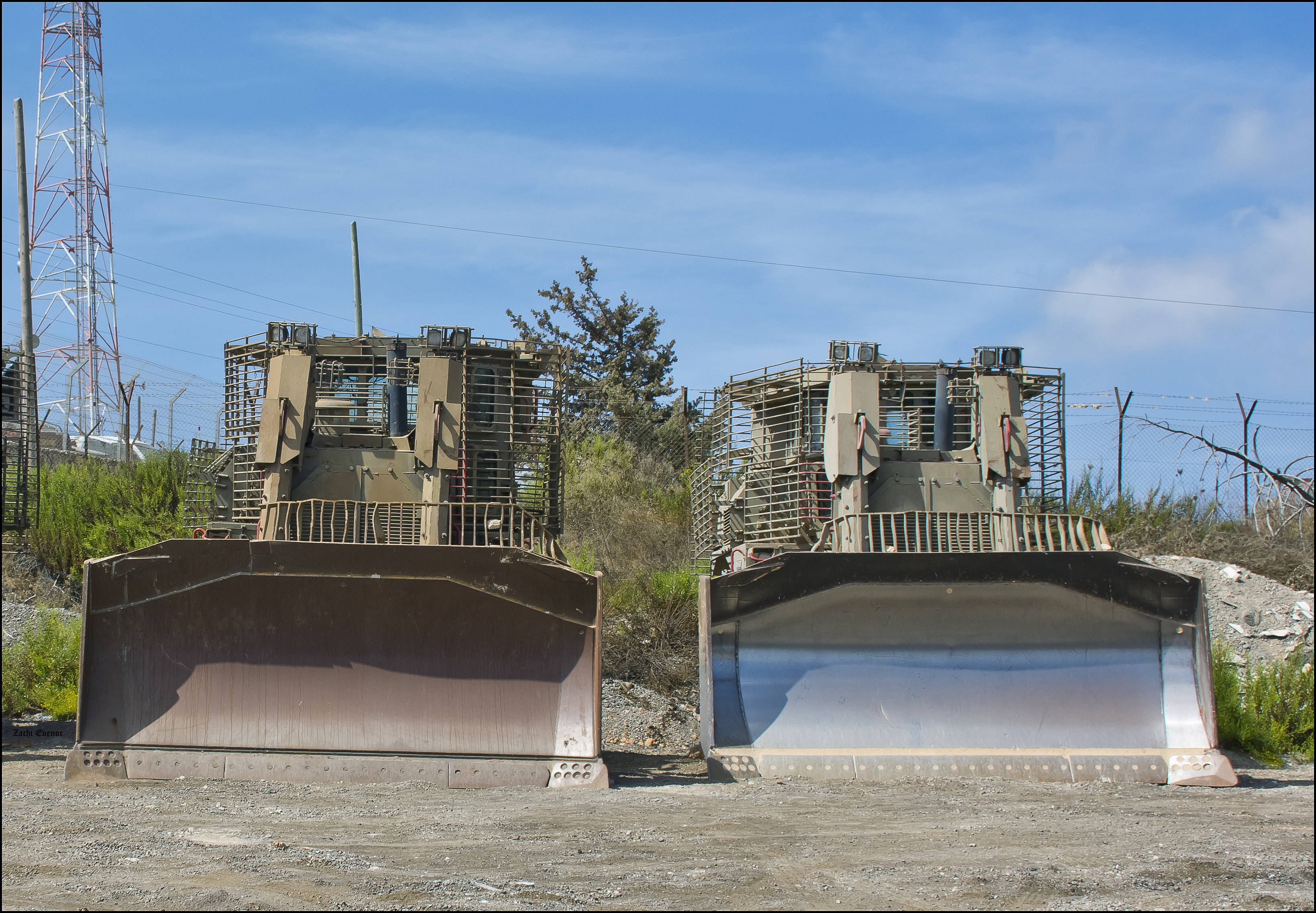 Two IDF Caterpillar D9 "Doobi" armored bulldozers in Gush Etzion, Israel